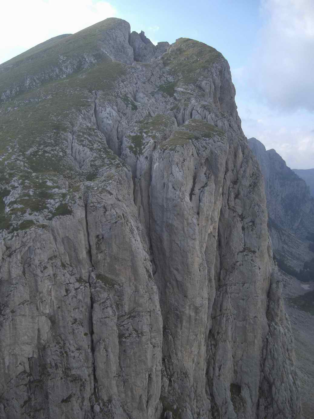 Dejë mountain, northern Albania